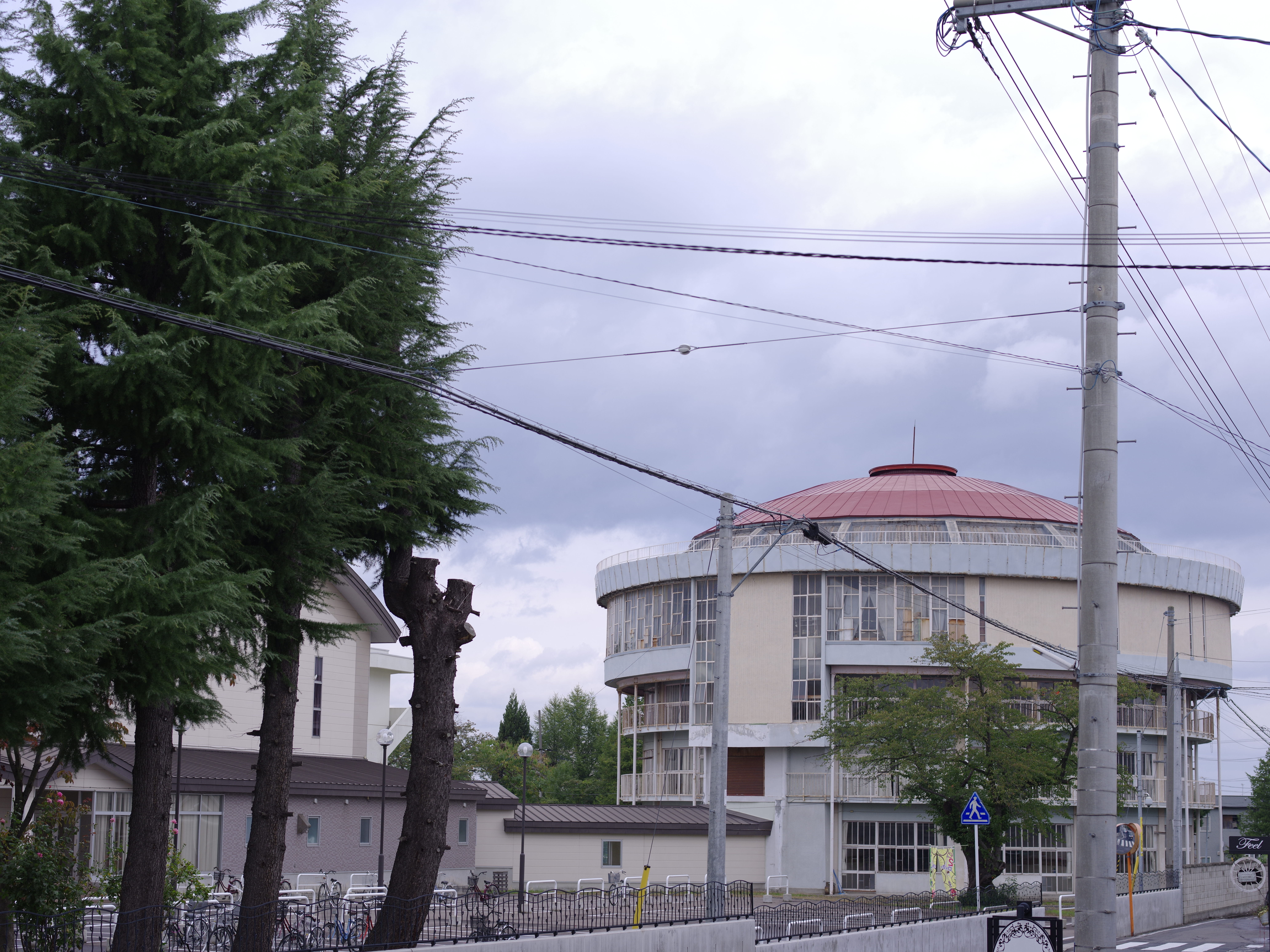 Shibata Girls' High School in Hirosaki city, Aomori pref Japan